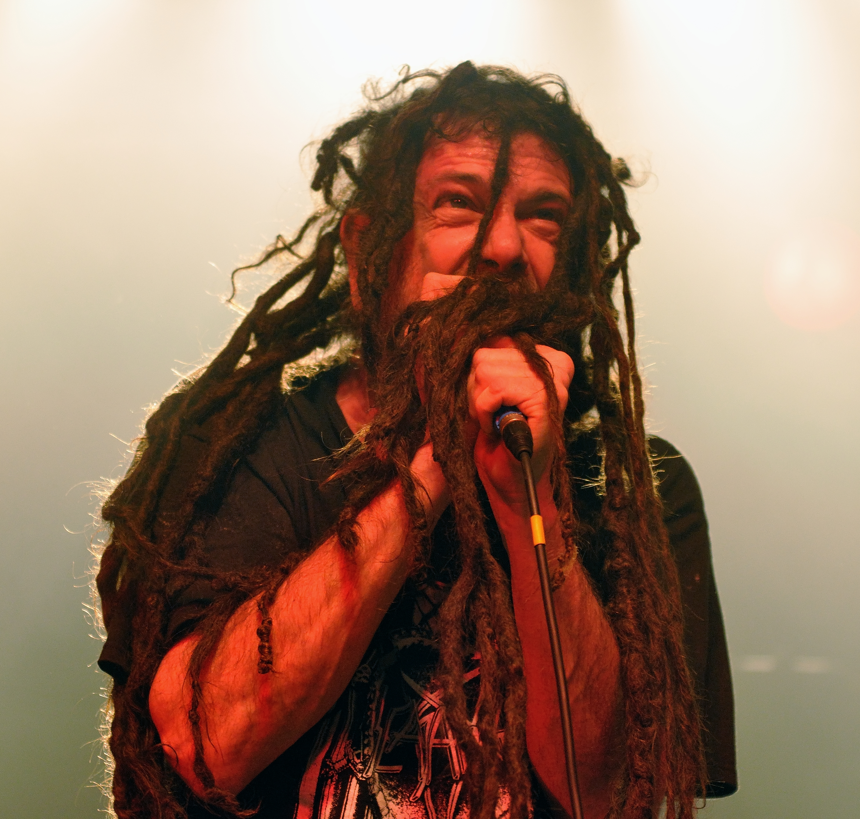 Six Feet Under at Hatefest 2015 in Berlin.